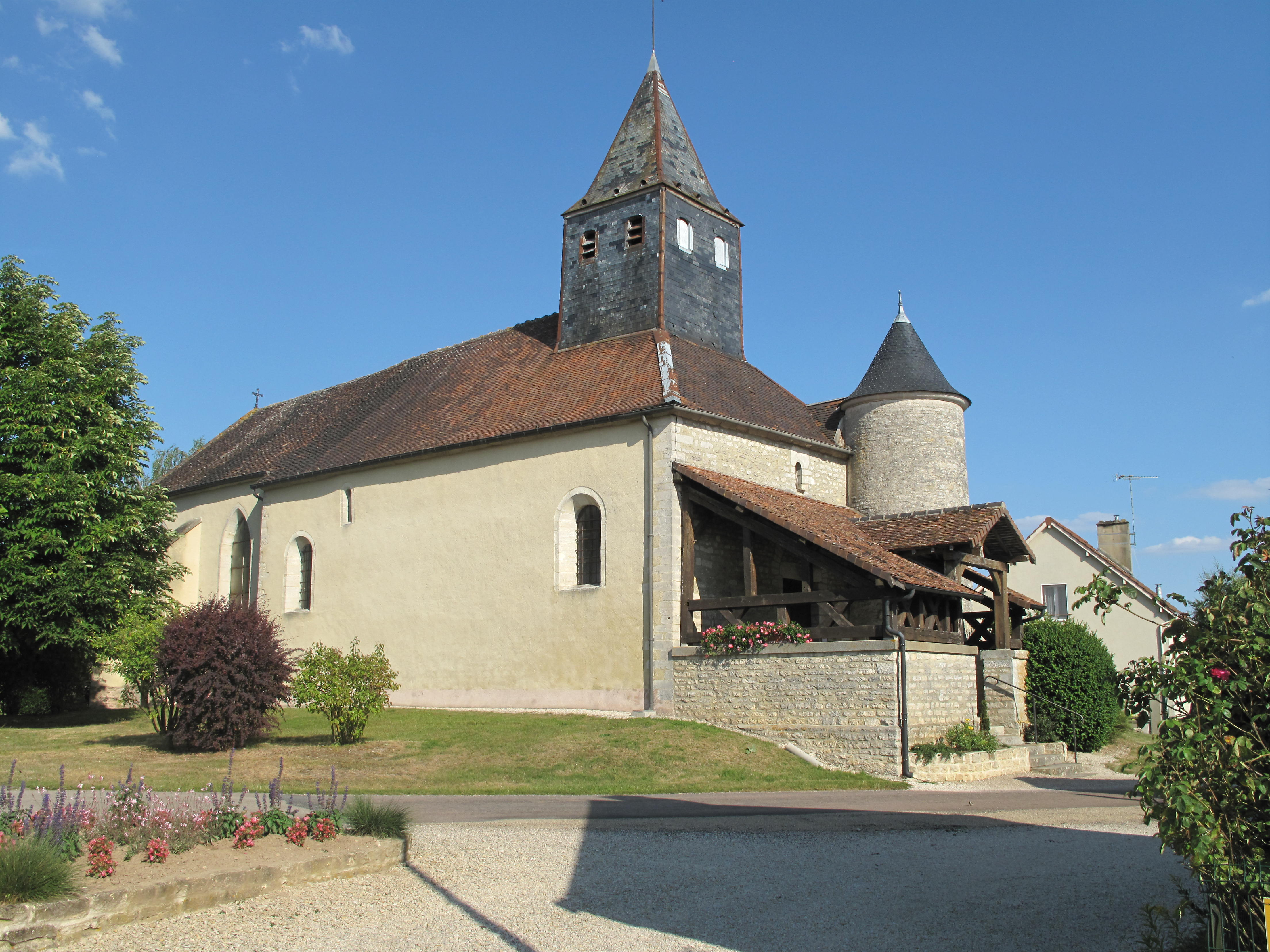 The church of la Rothière (Aube, France).